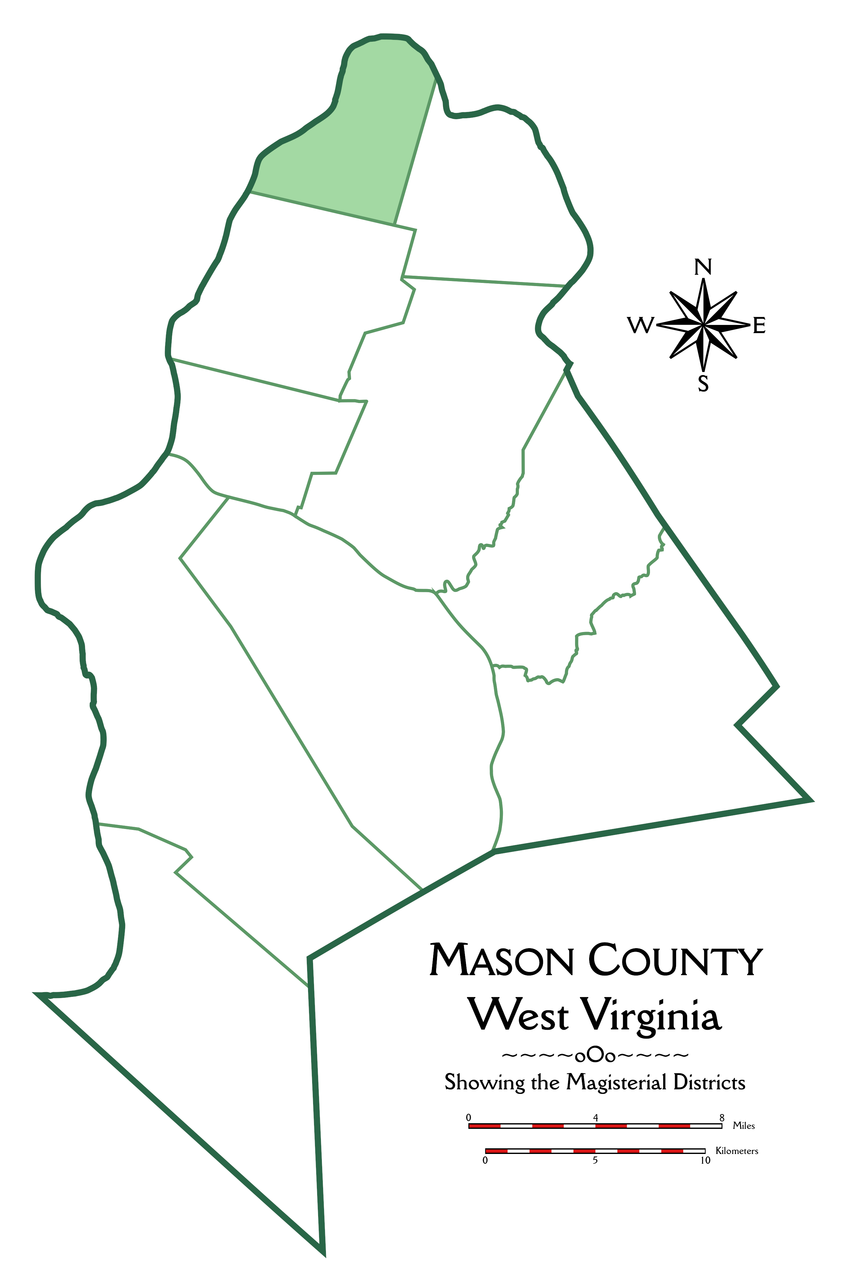 This is an outline map of Mason County, West Virginia, showing the boundaries of the magisterial districts. Waggener District is highlighted.